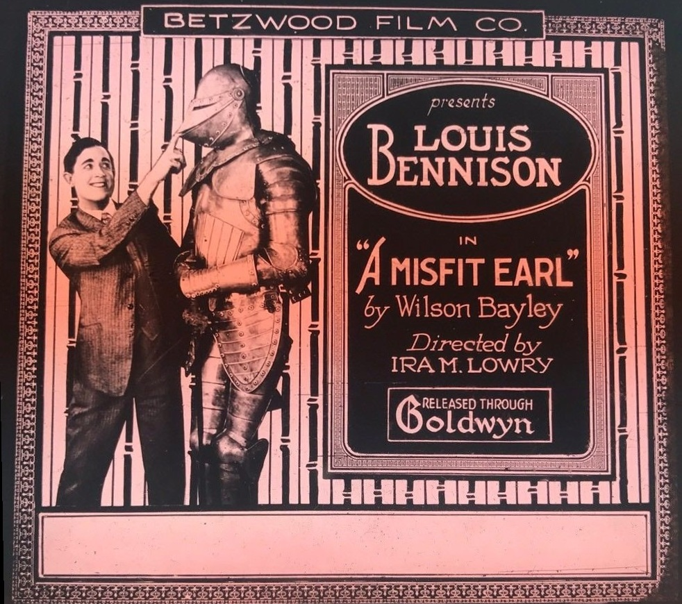 This is a lantern slide for the 1919 American comedy film A Misfit Earl.